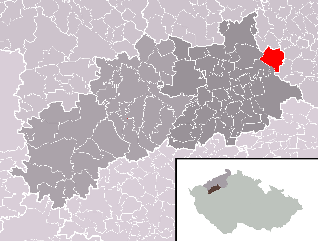 Location of Koštice municipality within Louny District and administrative area of Louny as a Municipality with Extended Competence.